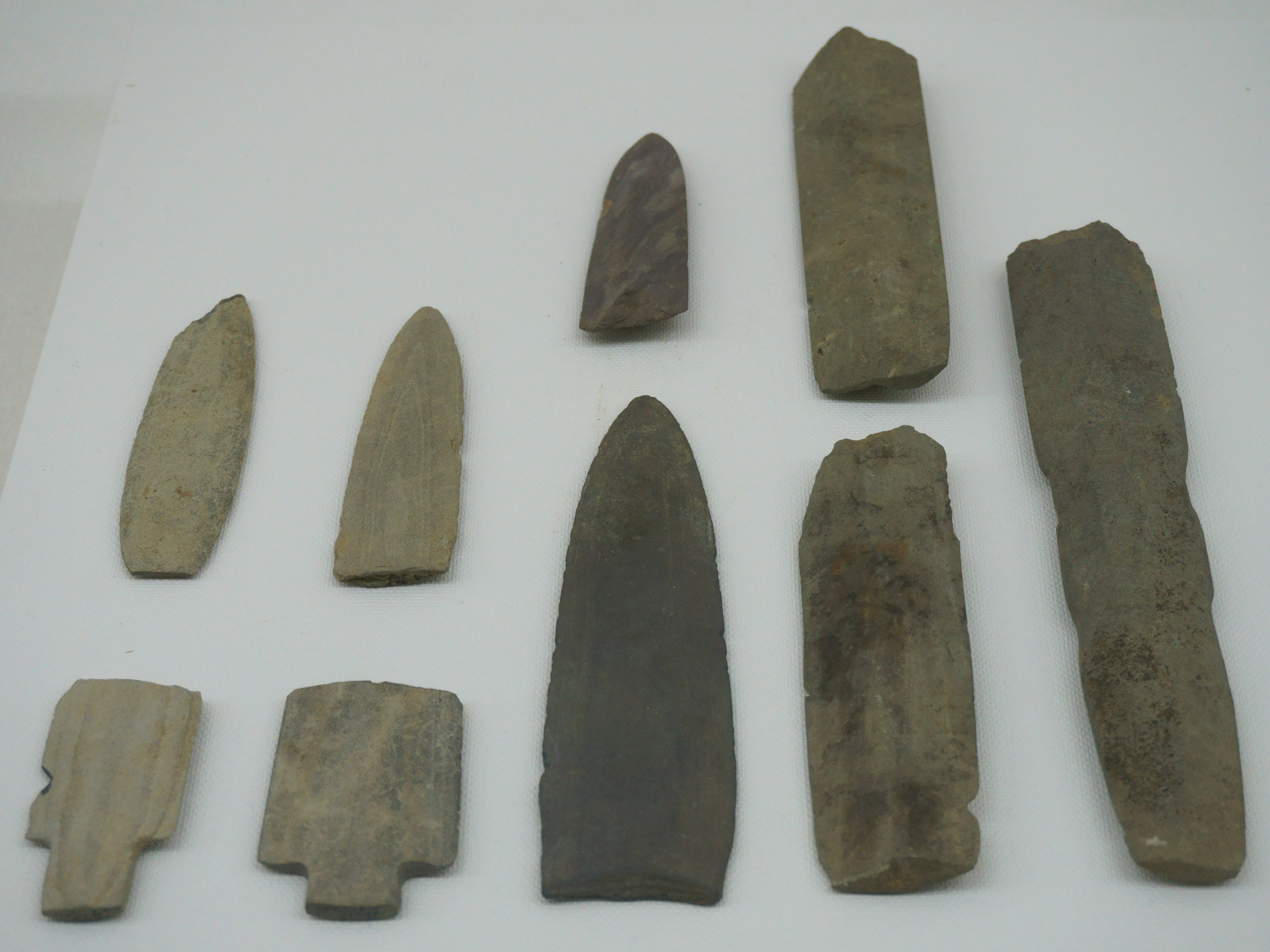 Polished stone daggers. Excavated from: Yoshinogari Site. Display:Exhibition room of Yoshinogari Site.